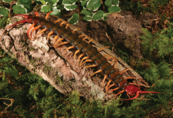 Scolopendra multidens.